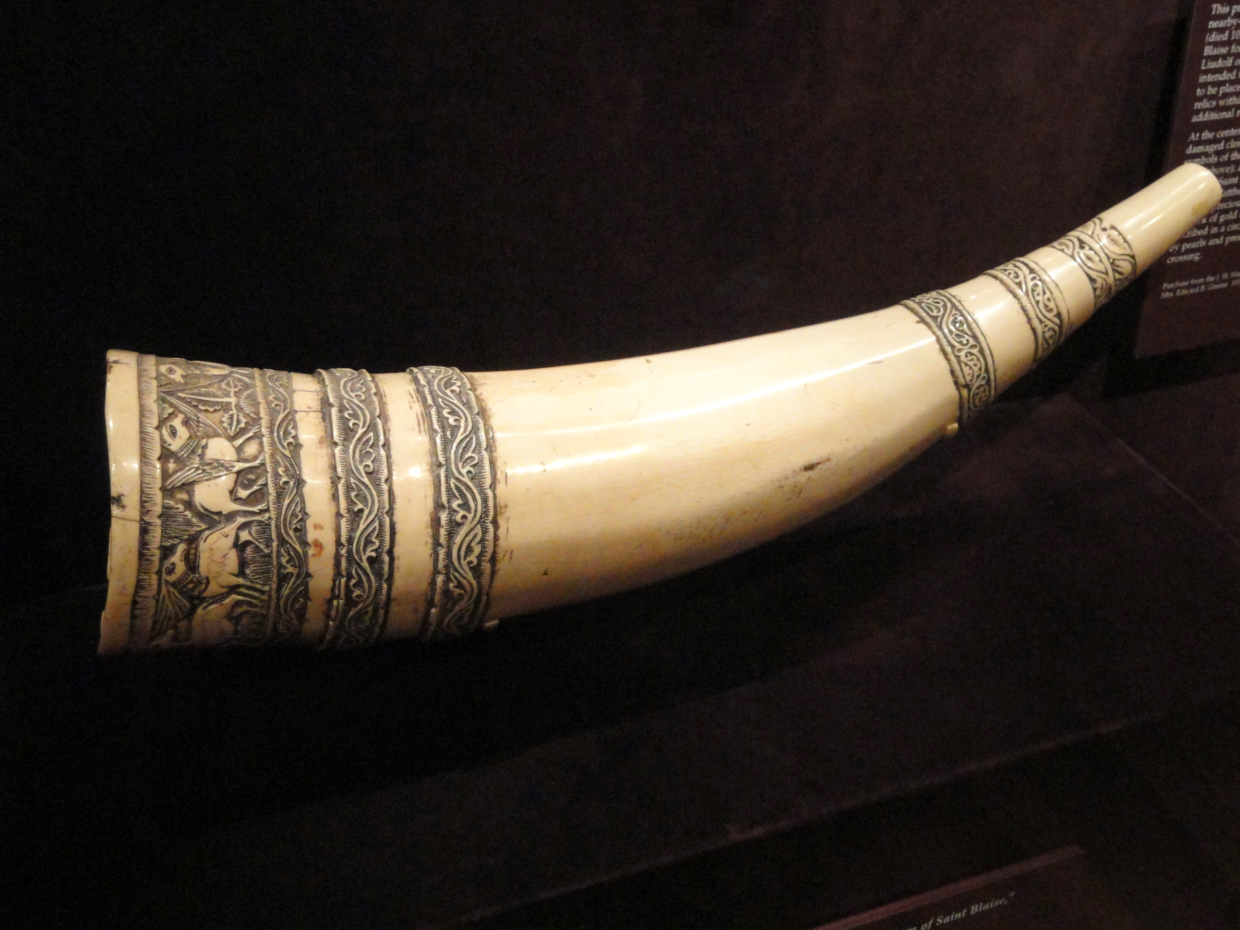 Exhibit in the Cleveland Museum of Art, Cleveland, Ohio, USA. This artwork is old enough so that it is in the public domain.